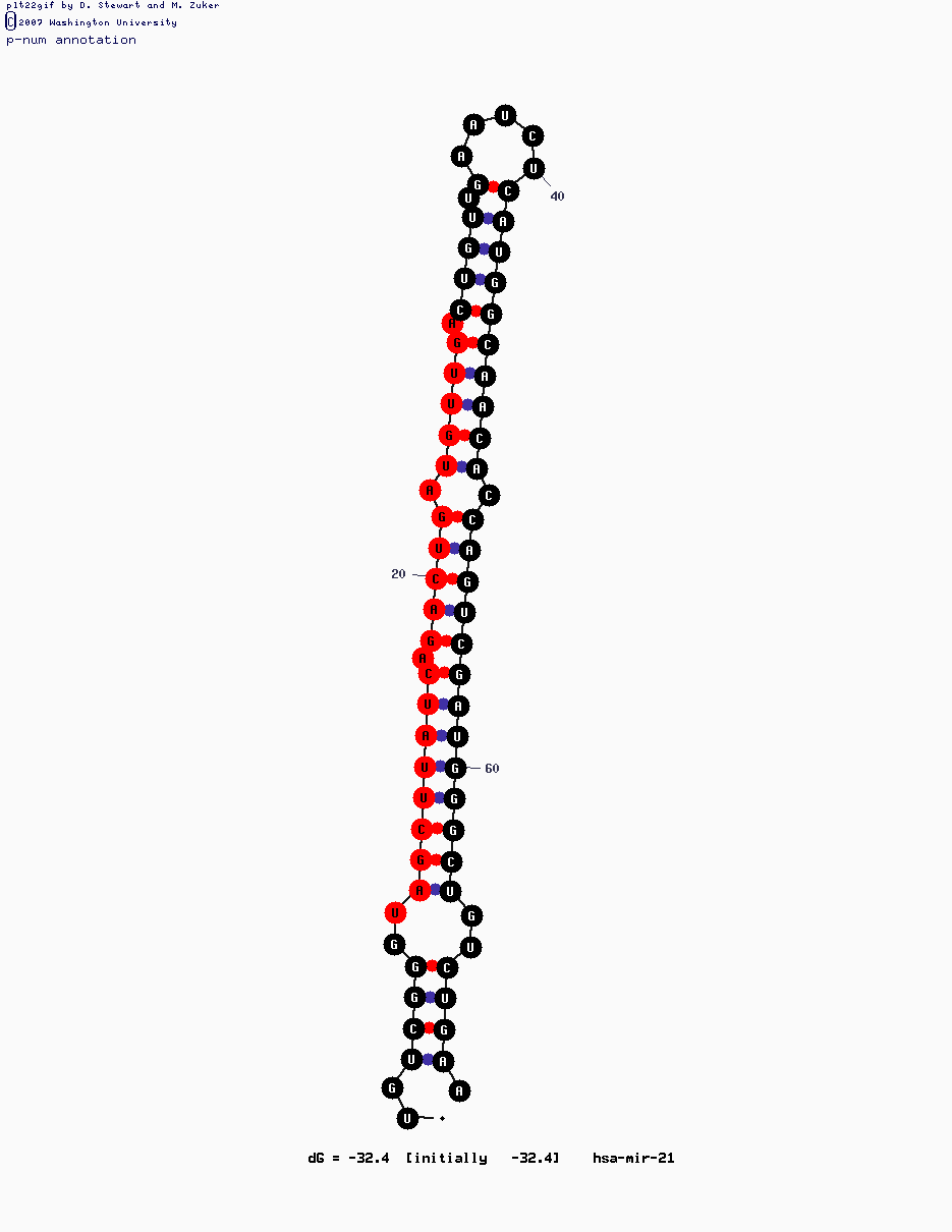 A picture of the structure of miR-21